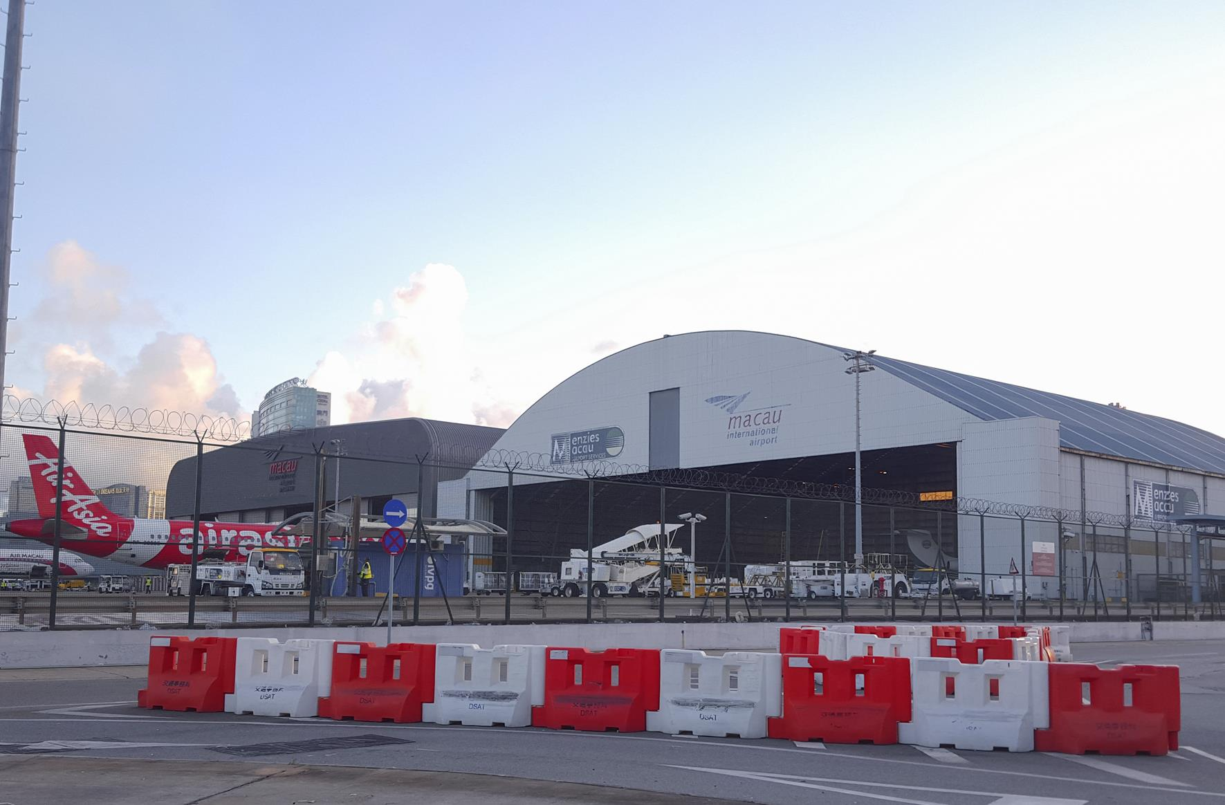 Hangar in Macau Internetional Airport